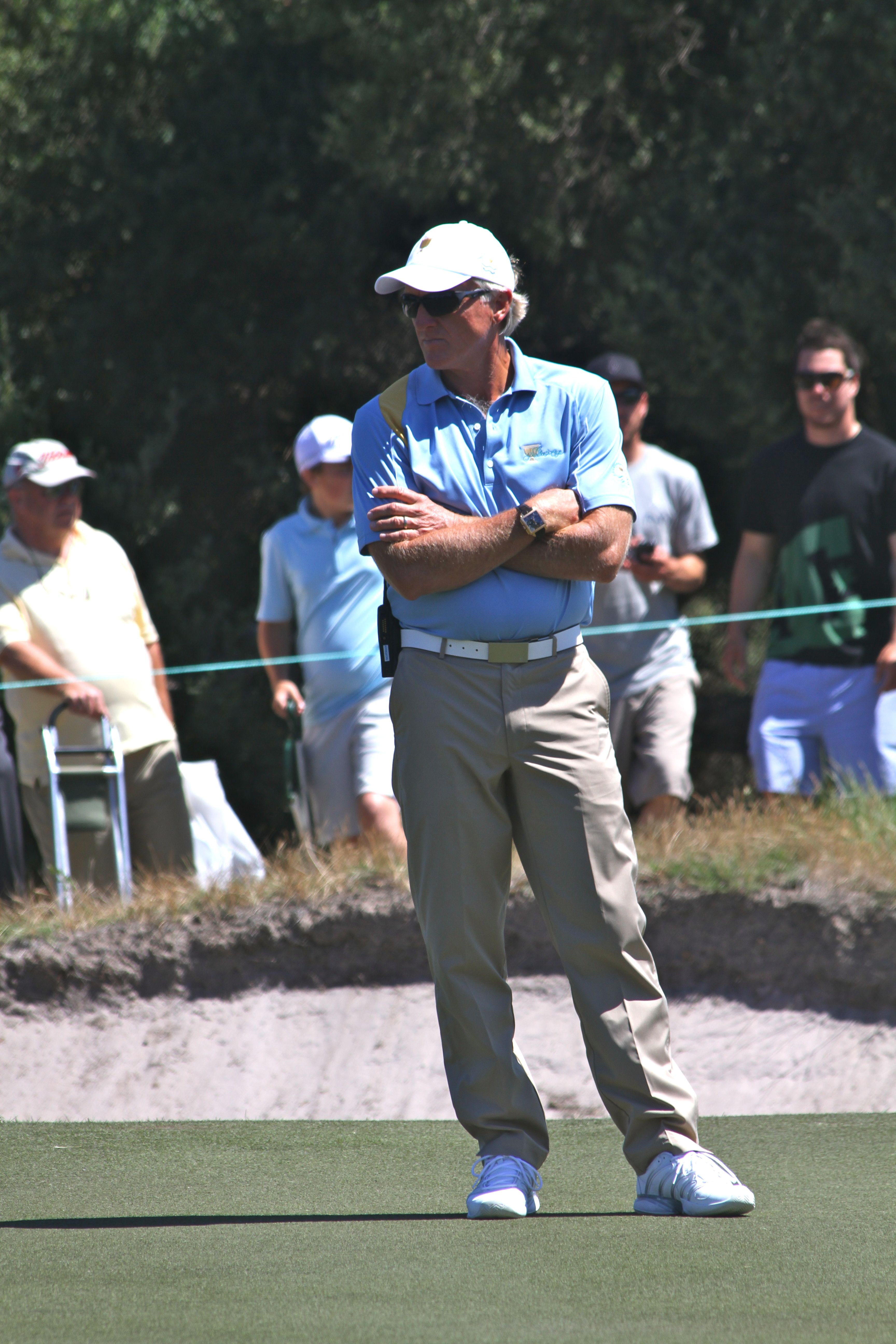 Greg Norman at Presidents Cup 2011. Practice round, 15th Nov.